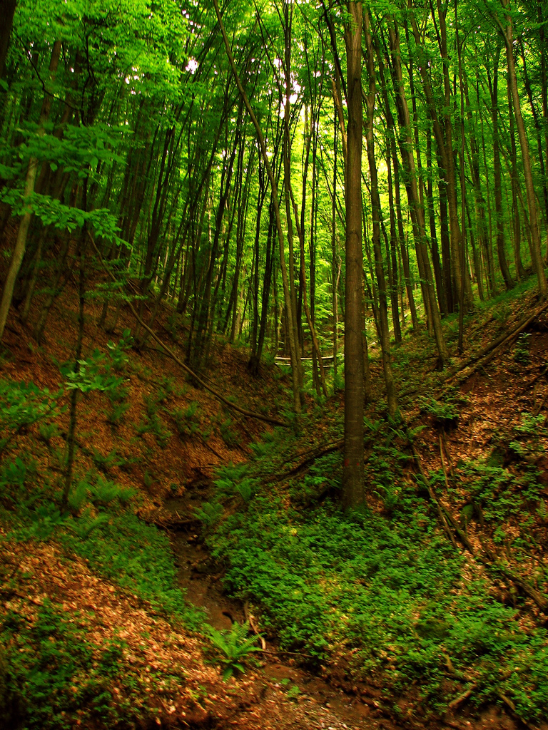 deep in the forest during a long walk